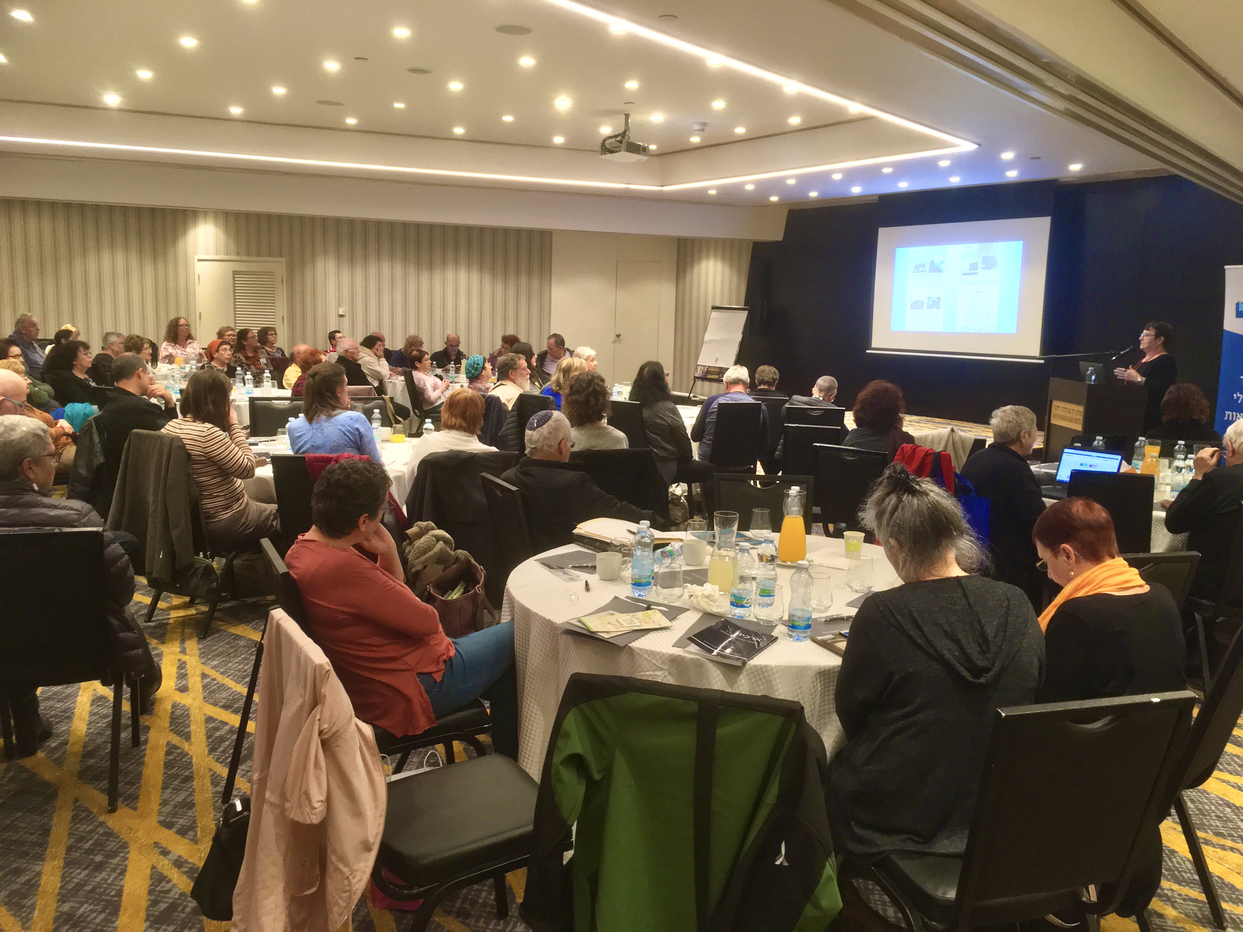 At the 2019 annual conference of The Association of Israeli Archivists (AIA), Dan Panorama Hotel, Haifa